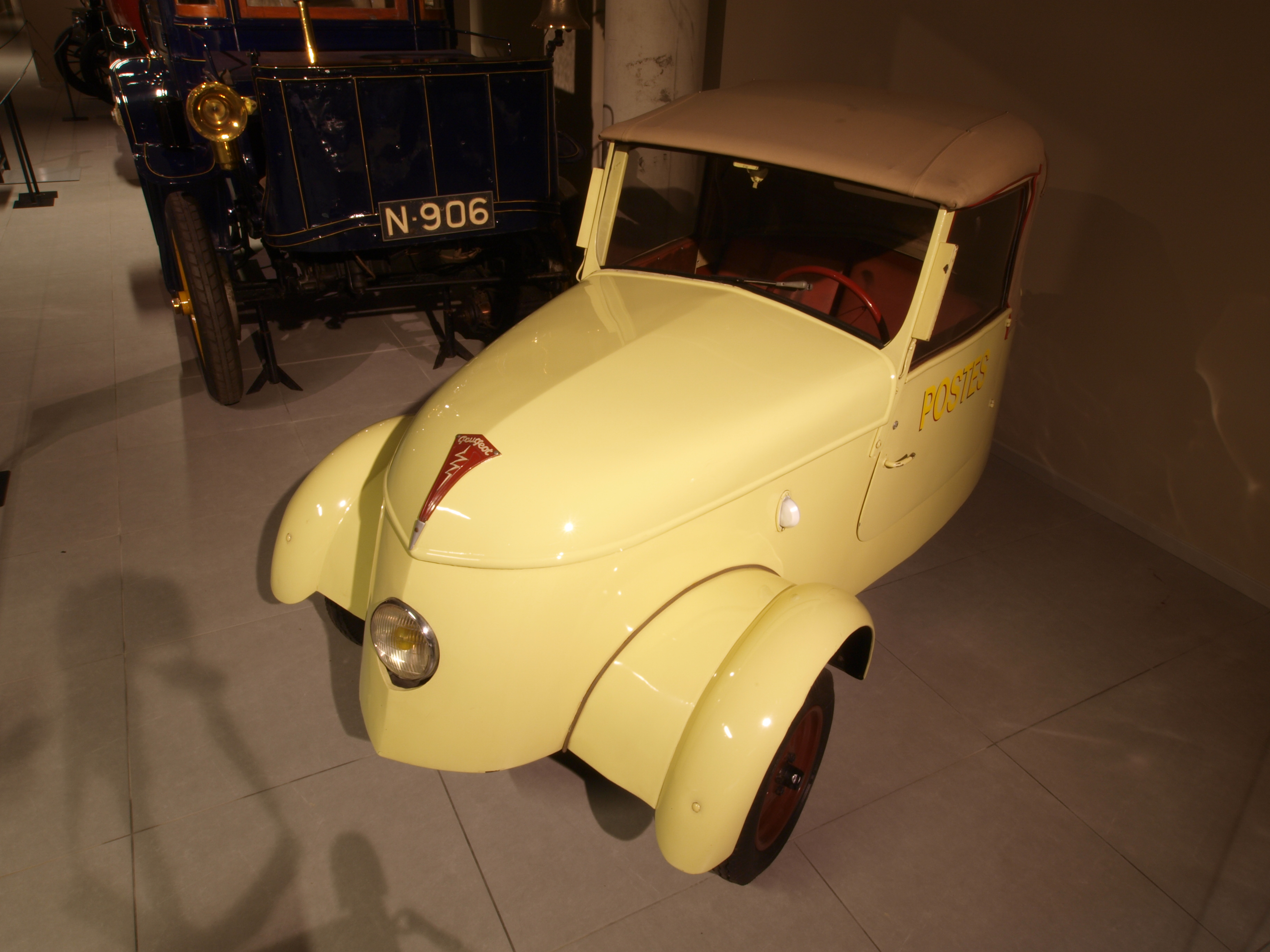 Photographed at the Louwman museum / Louwman Collection, The Netherlands.